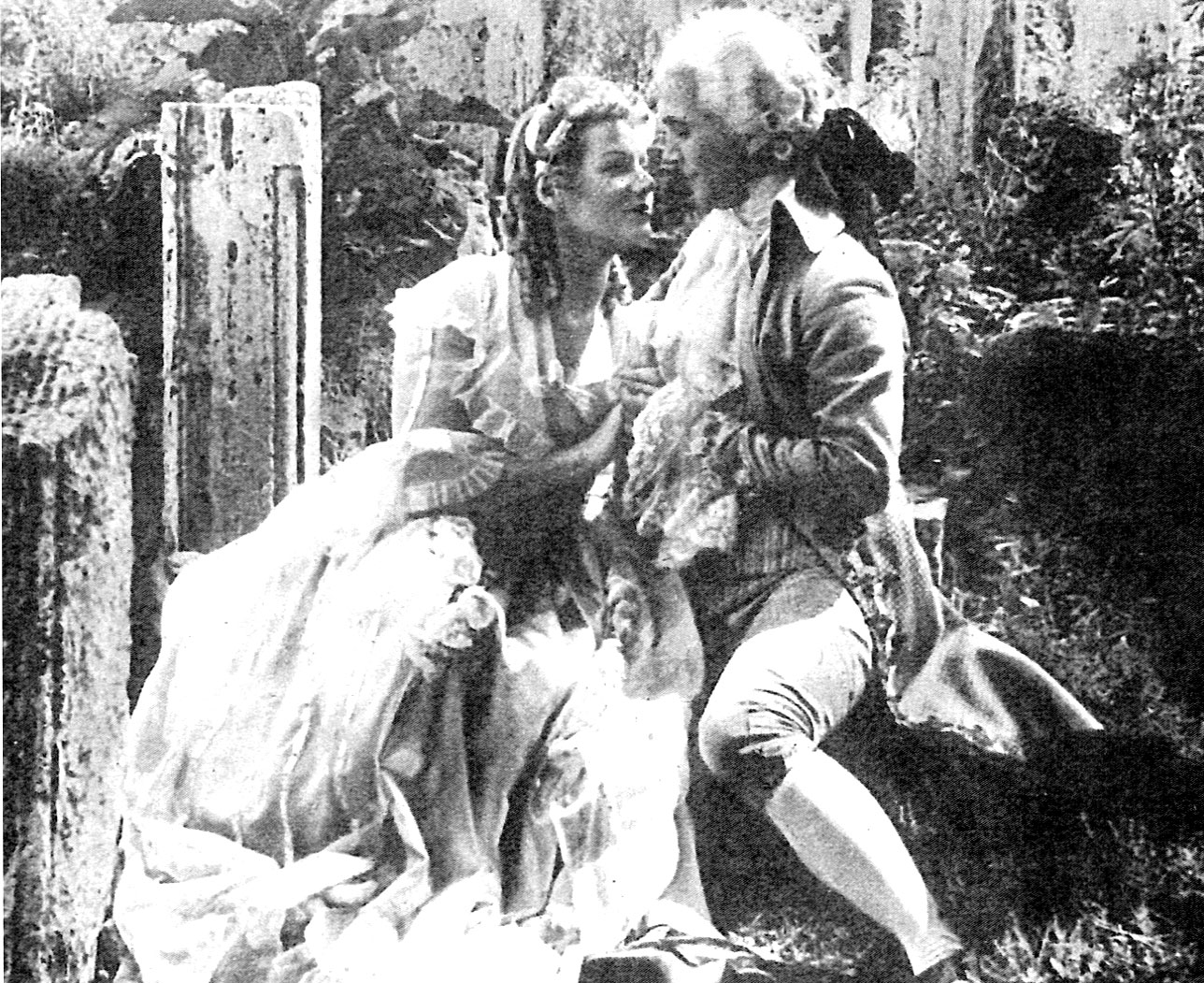 Laura Solari e Maurizio D'Ancora nel "Don Pasquale" ( Mastrocinque 1940)